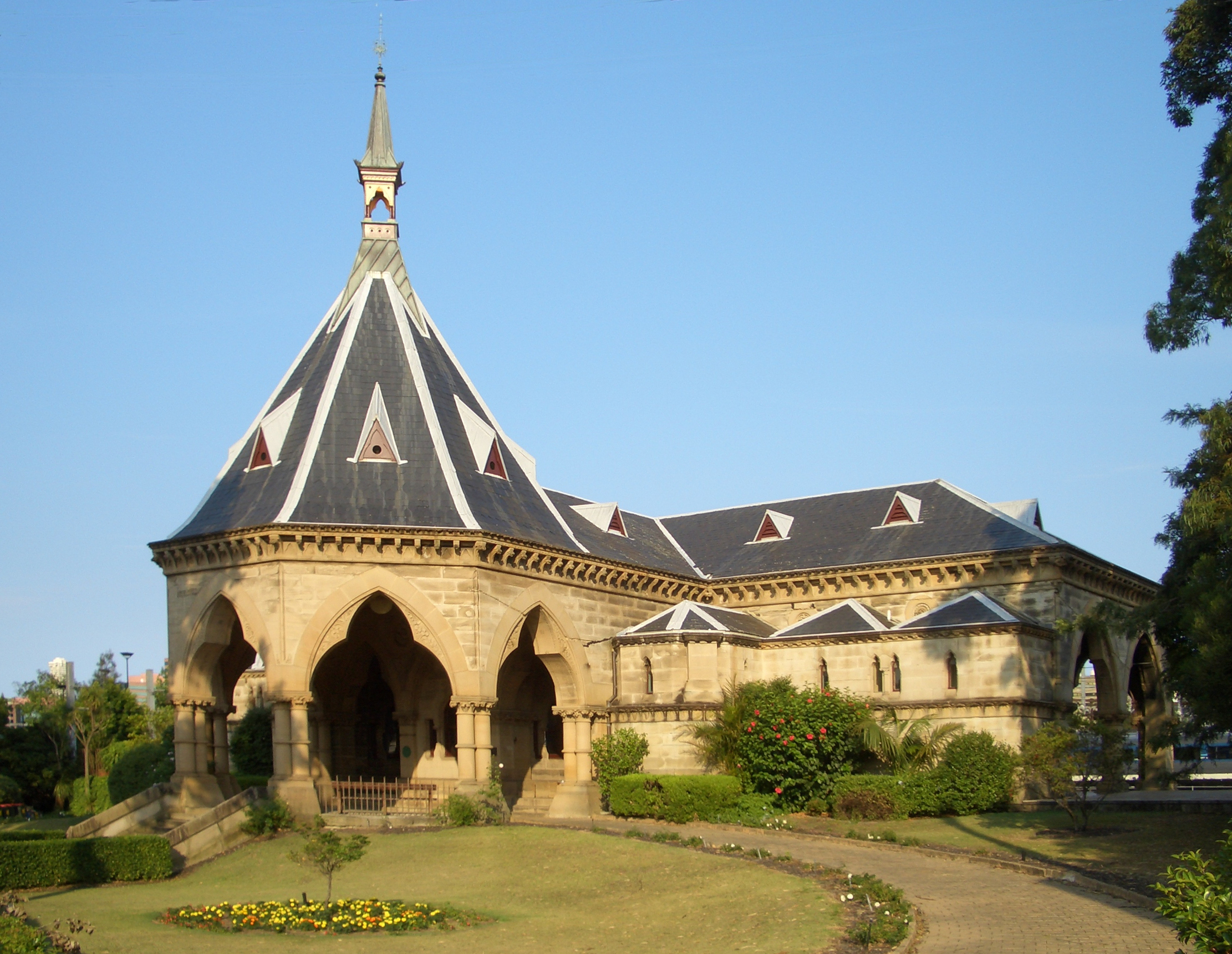 Mortuary Station Garden